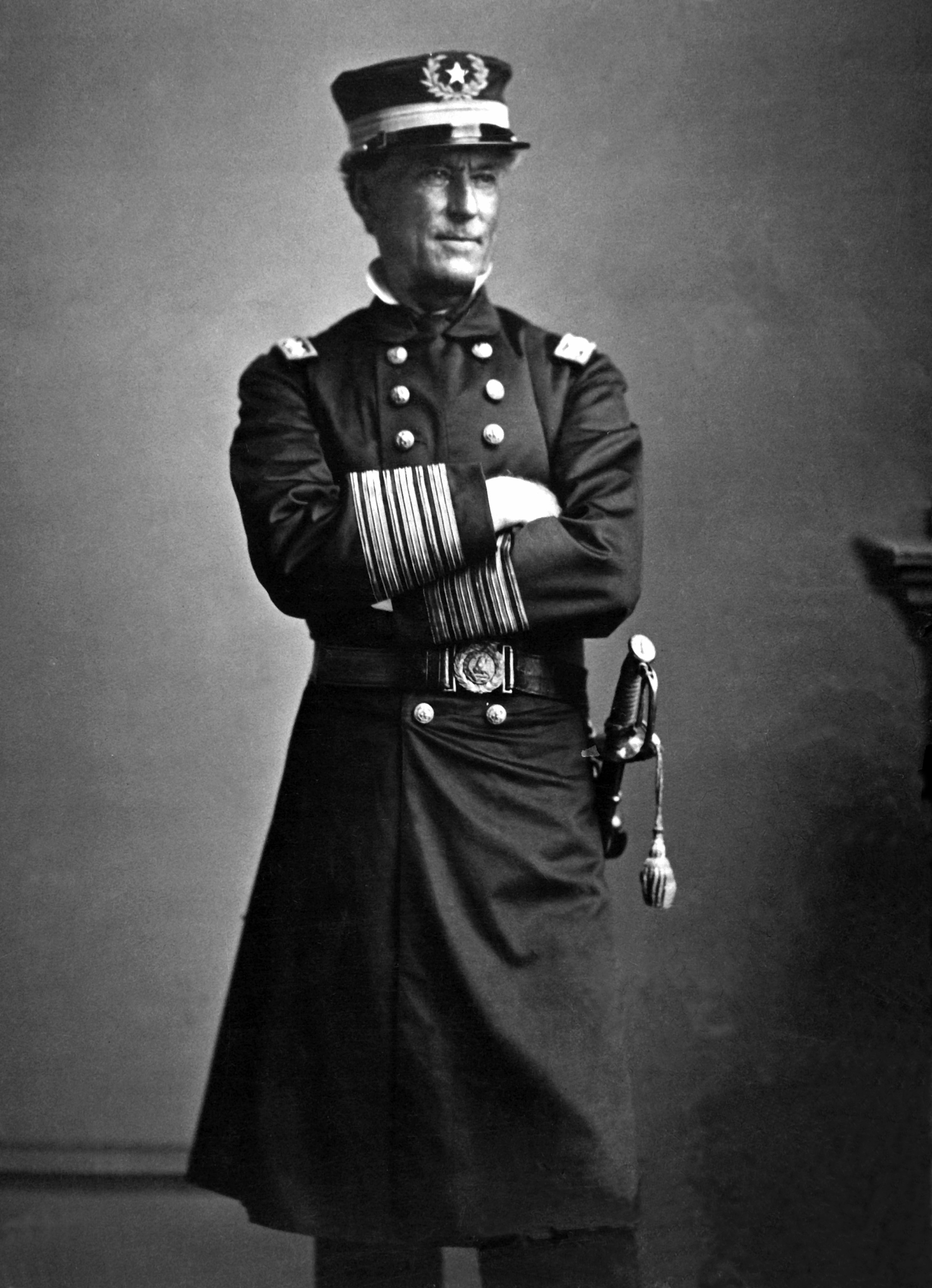 Adm. David G. Farragut, ca. 1863 Mathew Brady Collection. (Army) Exact Date Shot Unknown NARA FILE #: 165-B-1921 WAR & CONFLICT BOOK #: 130